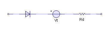 Author: Amr Bekhit